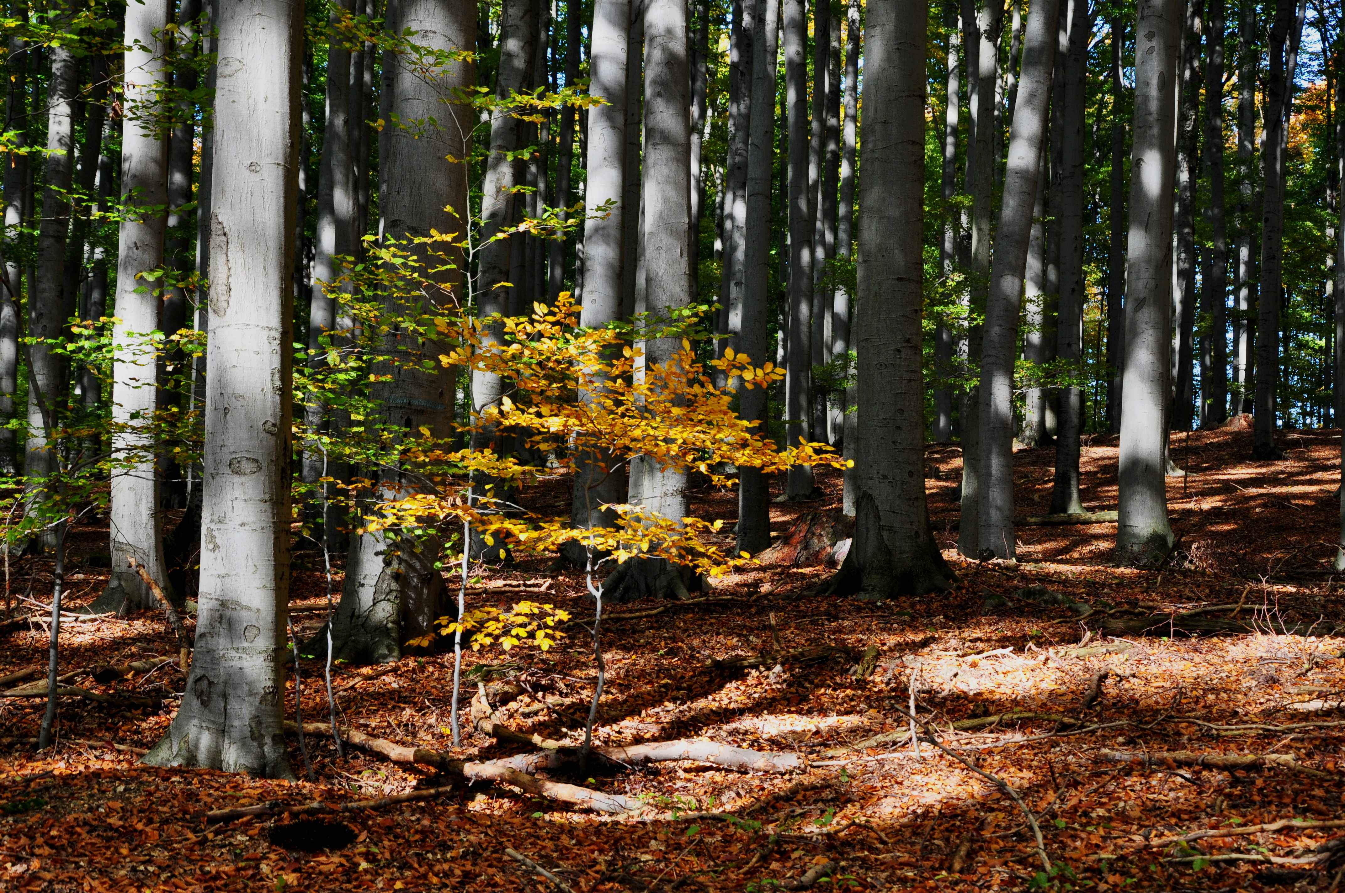 Part of national nature reserve Habrůvecká bučina in Blansko District, Czech Republic